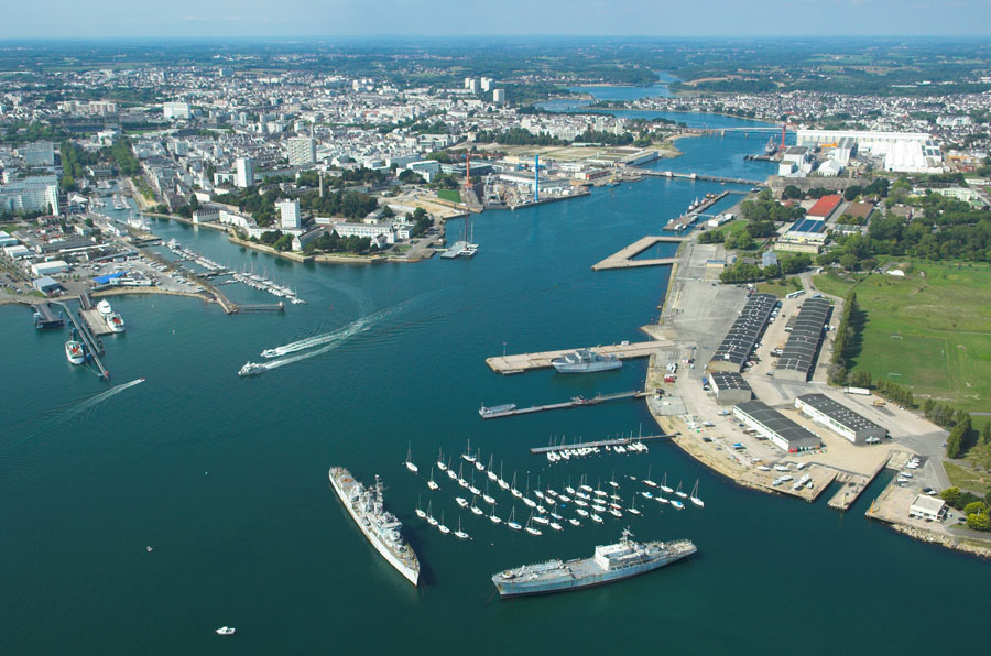 Lorient own work 05/09/2006